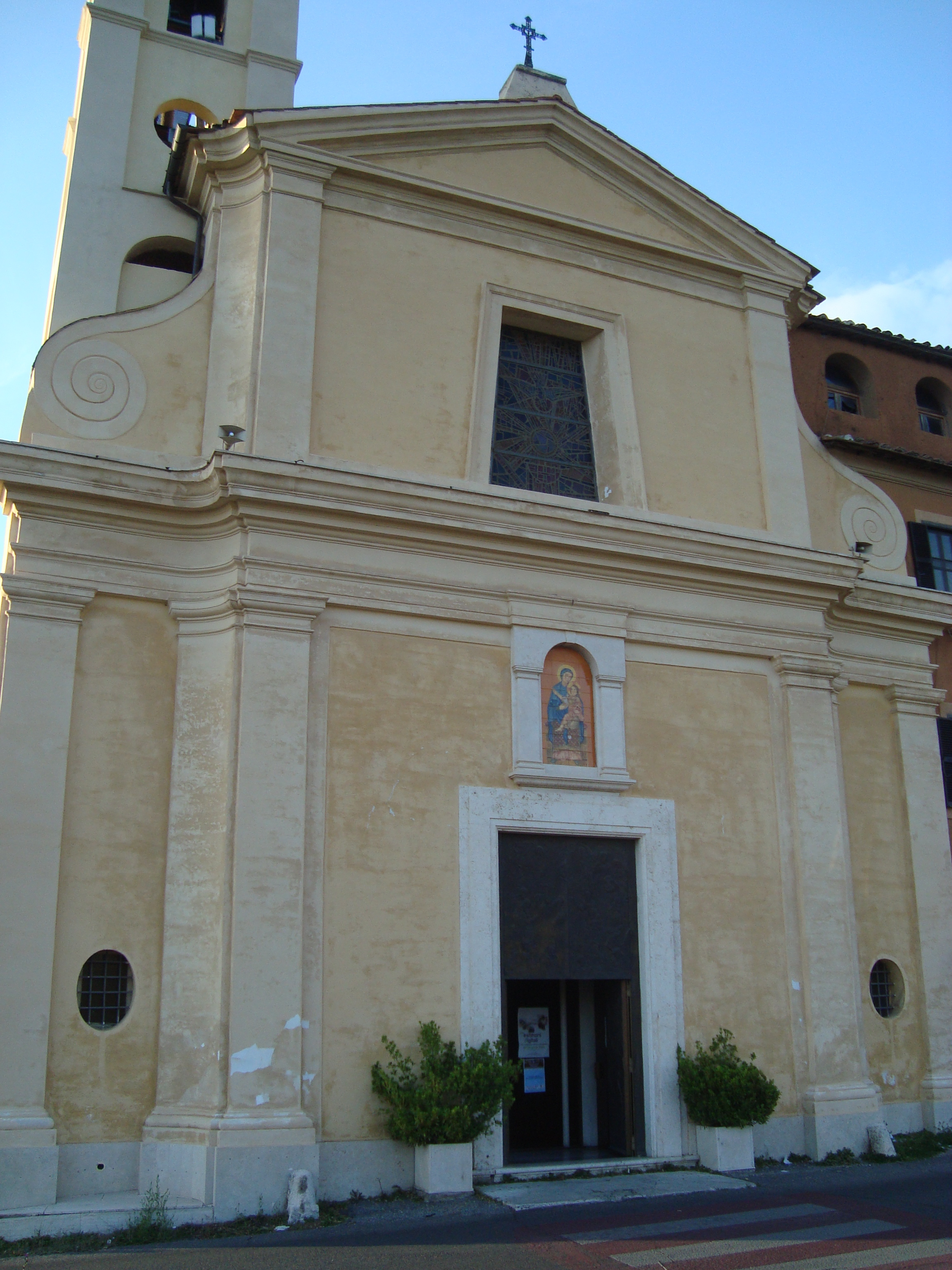 Church of the Virgin Mary of Quintiliolo in Tivoli